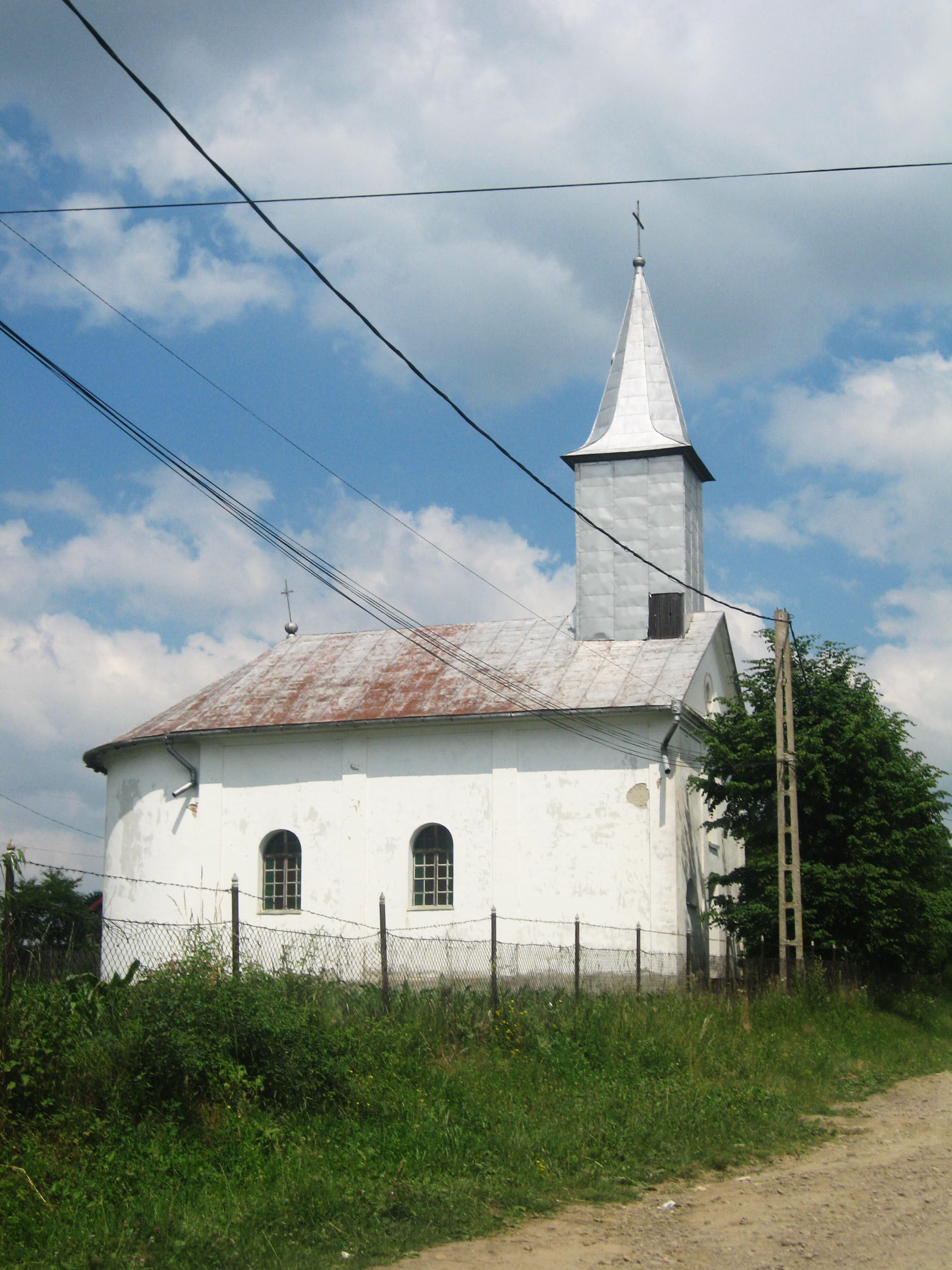 Roman Catholic Church in Ilişeşti, Suceava County, Romania